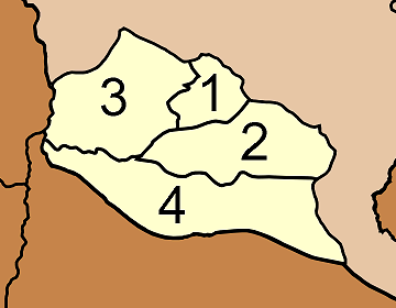 Map of Chaiburi district, Surat Thani province, Thailand, with the communes (tambon) numbered. Song Phraek (สองแพรก) Chai Buri (ชัยบุรี) Khlong Noi (คลองน้อย) Saithong (ไทรทอง)